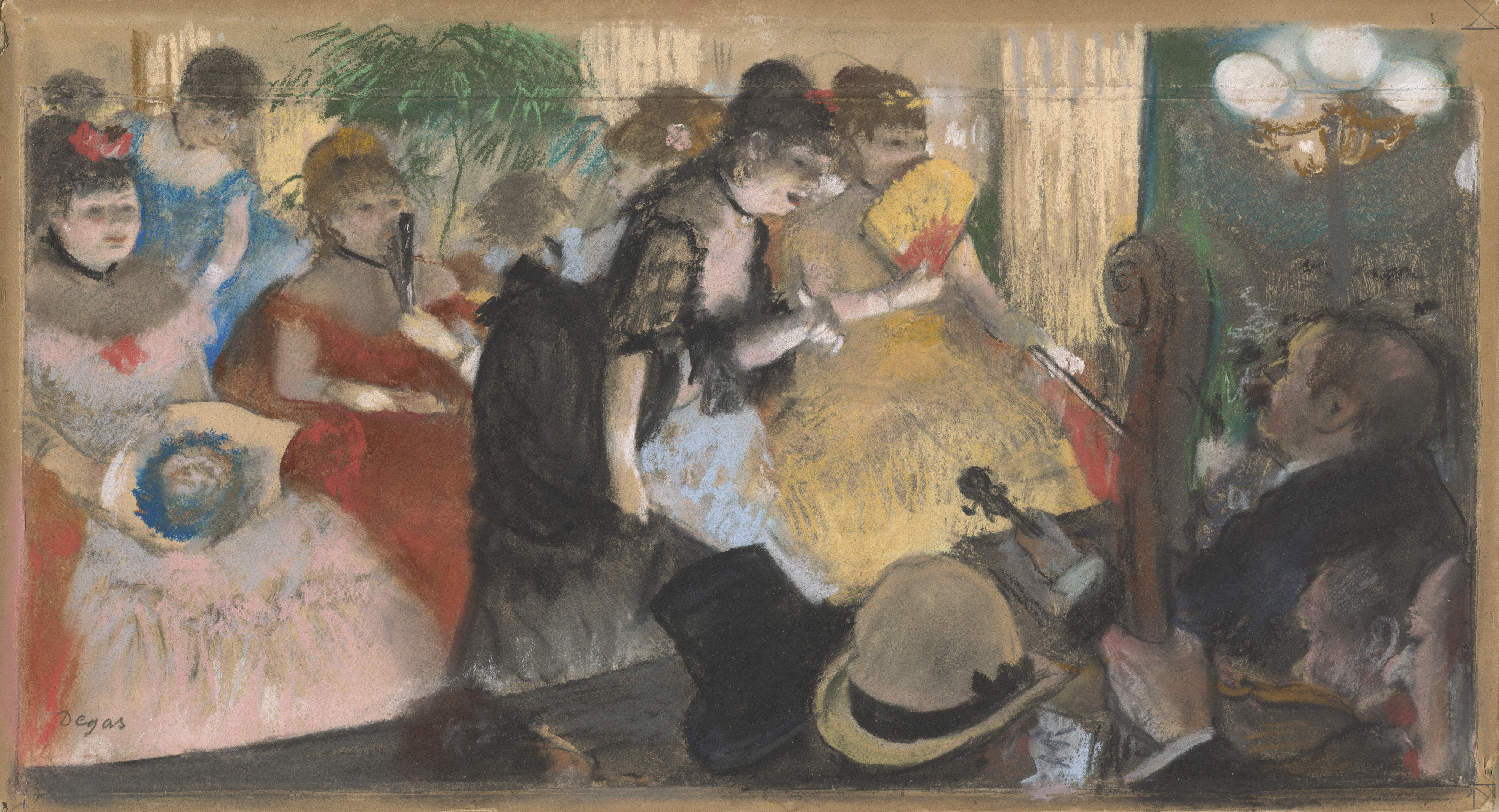 Café-Concert (1876-1877) by Edgar Degas, pastel over monotype on paper and board, 23.5 x 43.2 cm, Corcoran Gallery of Art. The conductor on the right side of the picture is possibly Charles Malo.